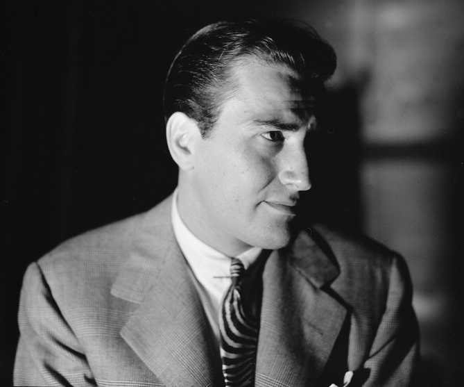 Artie Shaw. Photography by William P. Gottlieb